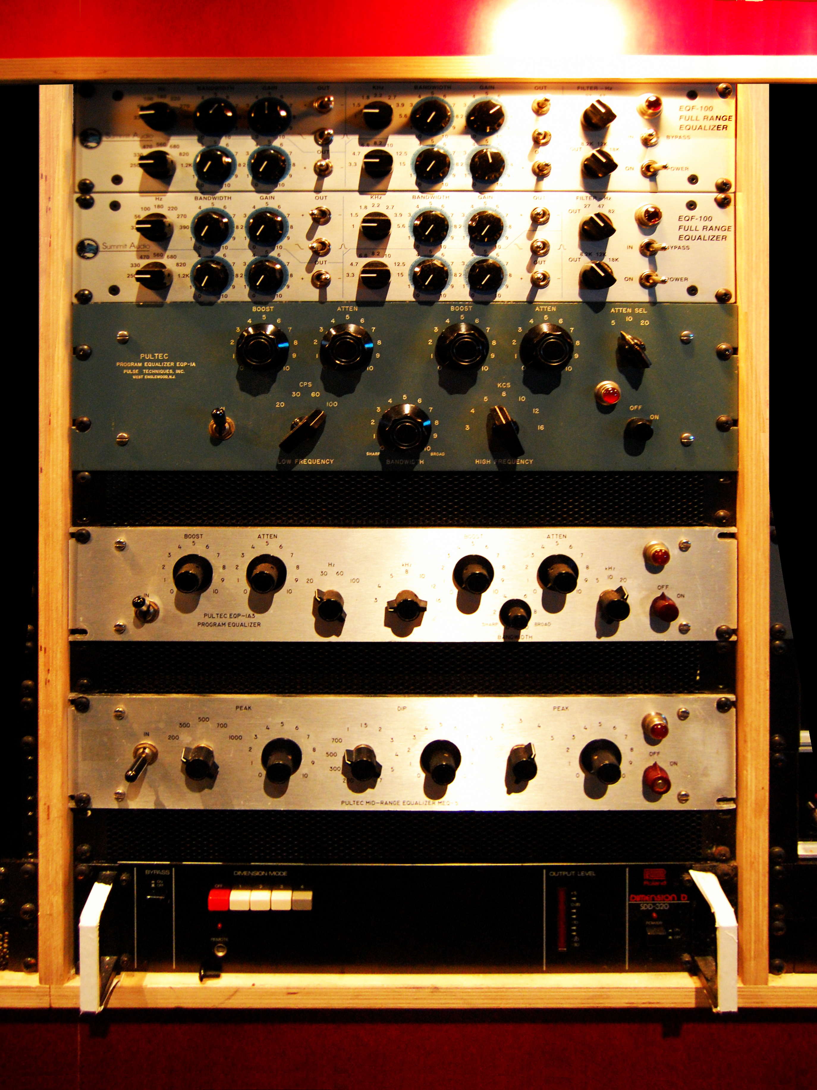 Recording studio rack 1, Avex Honolulu Studios Summit Audio EQF-100 Full Range Equalizer (×2) Pultec EQP-1A Program Equalizer Pultec EQP-1A3 Program Equalizer (×2) Roland SDD-320 Dimension D